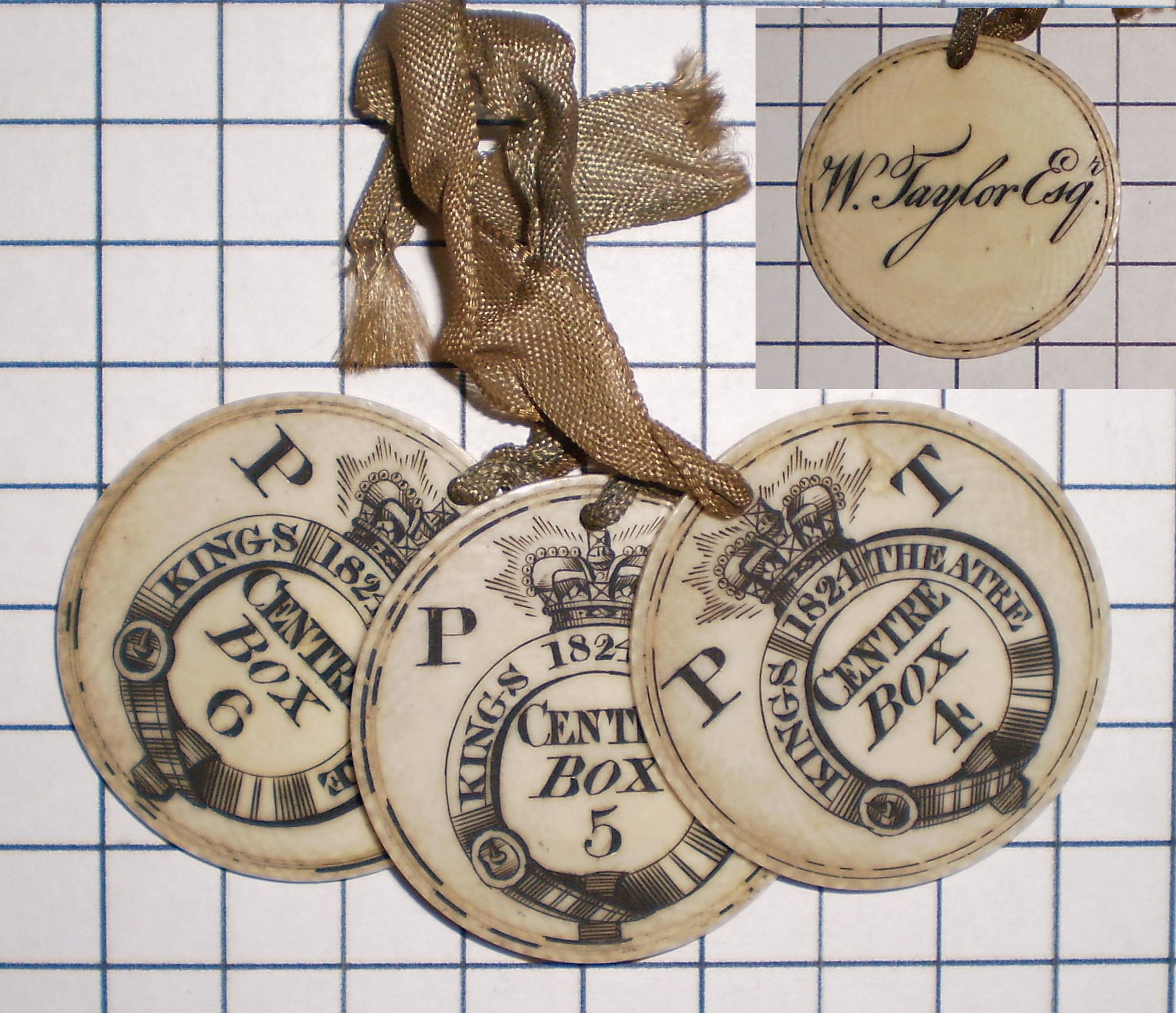 These are entrance tokens for three seats in the Centre Loge of the King's Theatre for the 1824 season. They bear on the back the signature of William Taylor, owner of the theater. Collection Renaud Olgiati